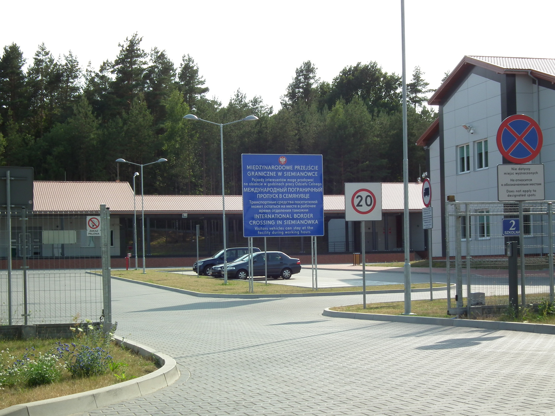 International Border Crossing in Siemianówka (Poland) facilities